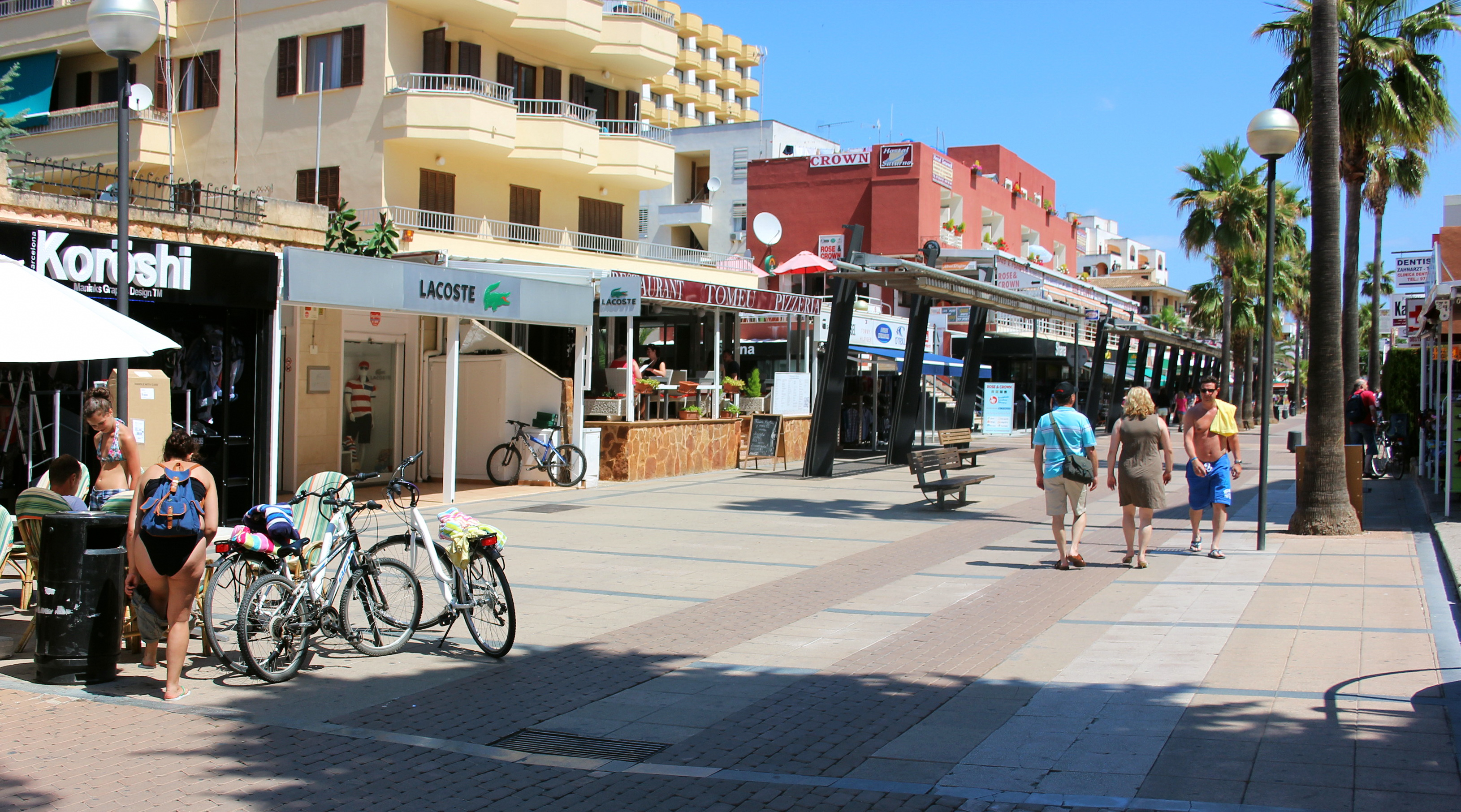 Pedestrianized area of ​​Cala Millor